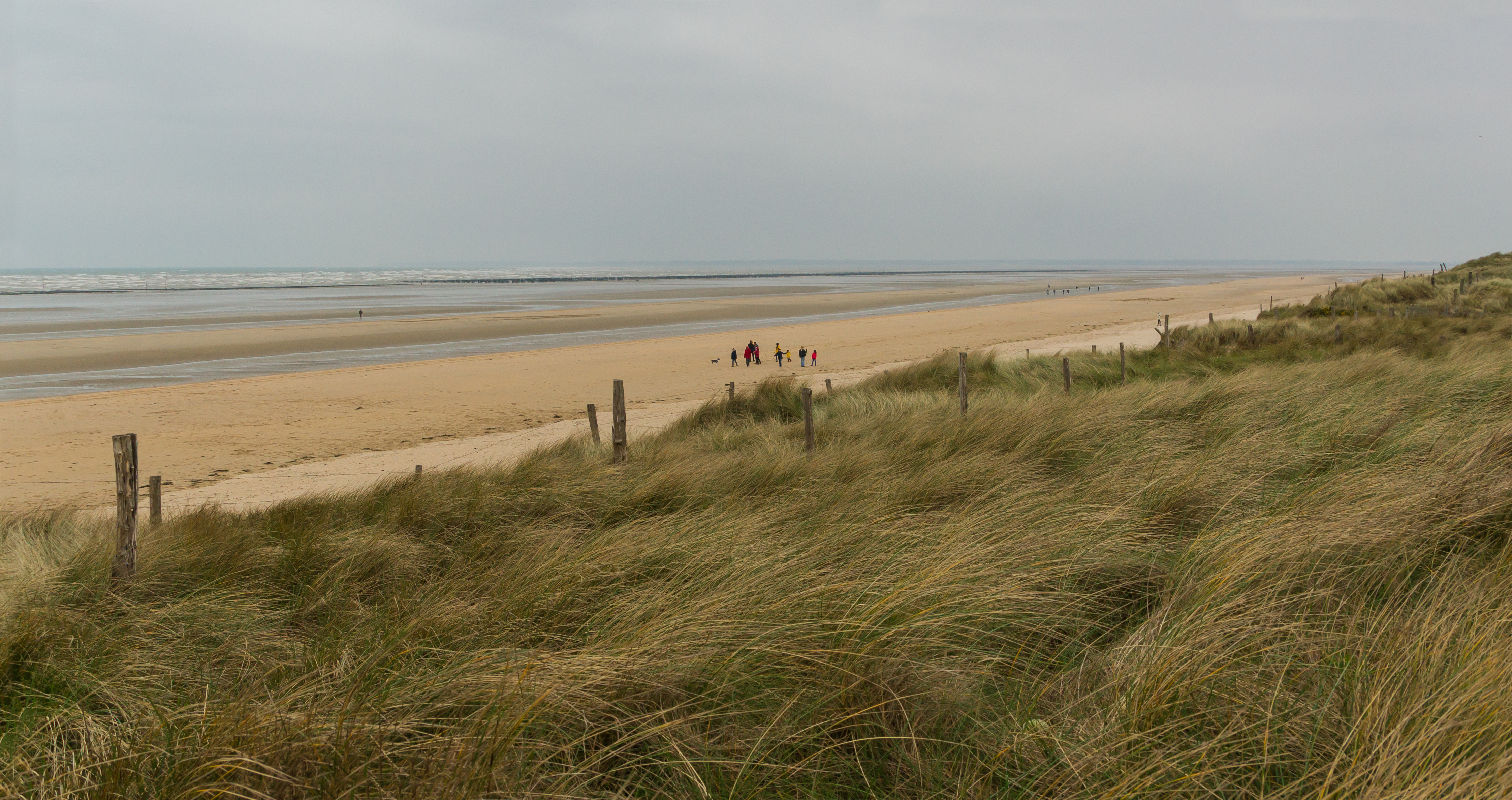 Utah Beach D-Day landing site, towards the south. Manche, Normandy, France.